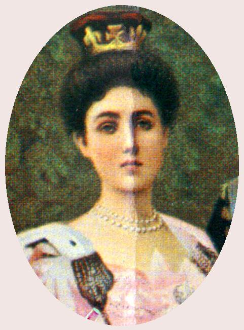 Princess Margareta of Sweden (1882-1920), née Margaret of Great Britain